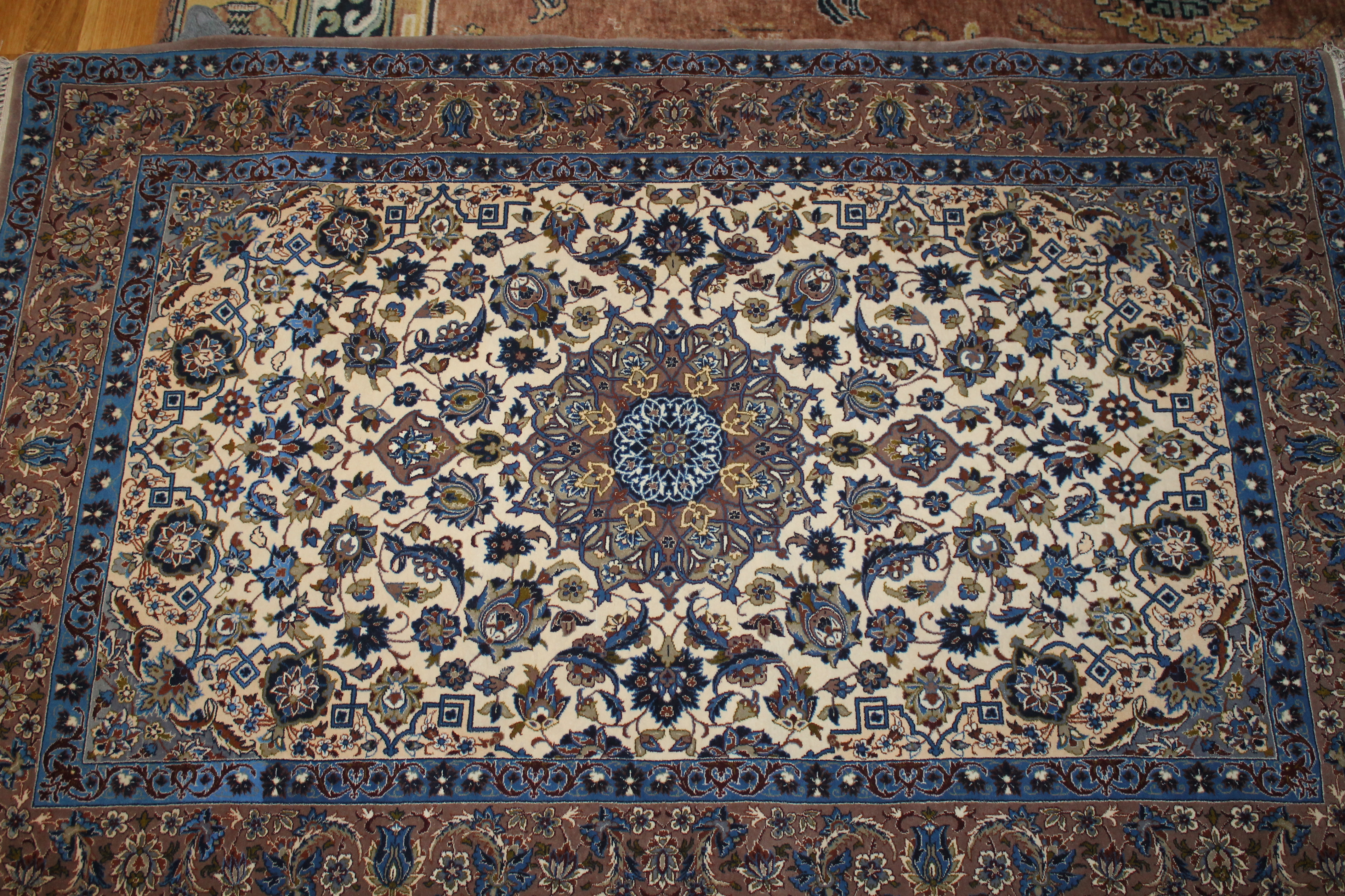 IRAN CARPET SIGNED " ISFAHAN ETEMADI " a property from my Asian art collection"فرش اصفهان جزو بهترین واصیل ترین هنرهای ایران است. سپاسگزارم. Vahid Parvaneh